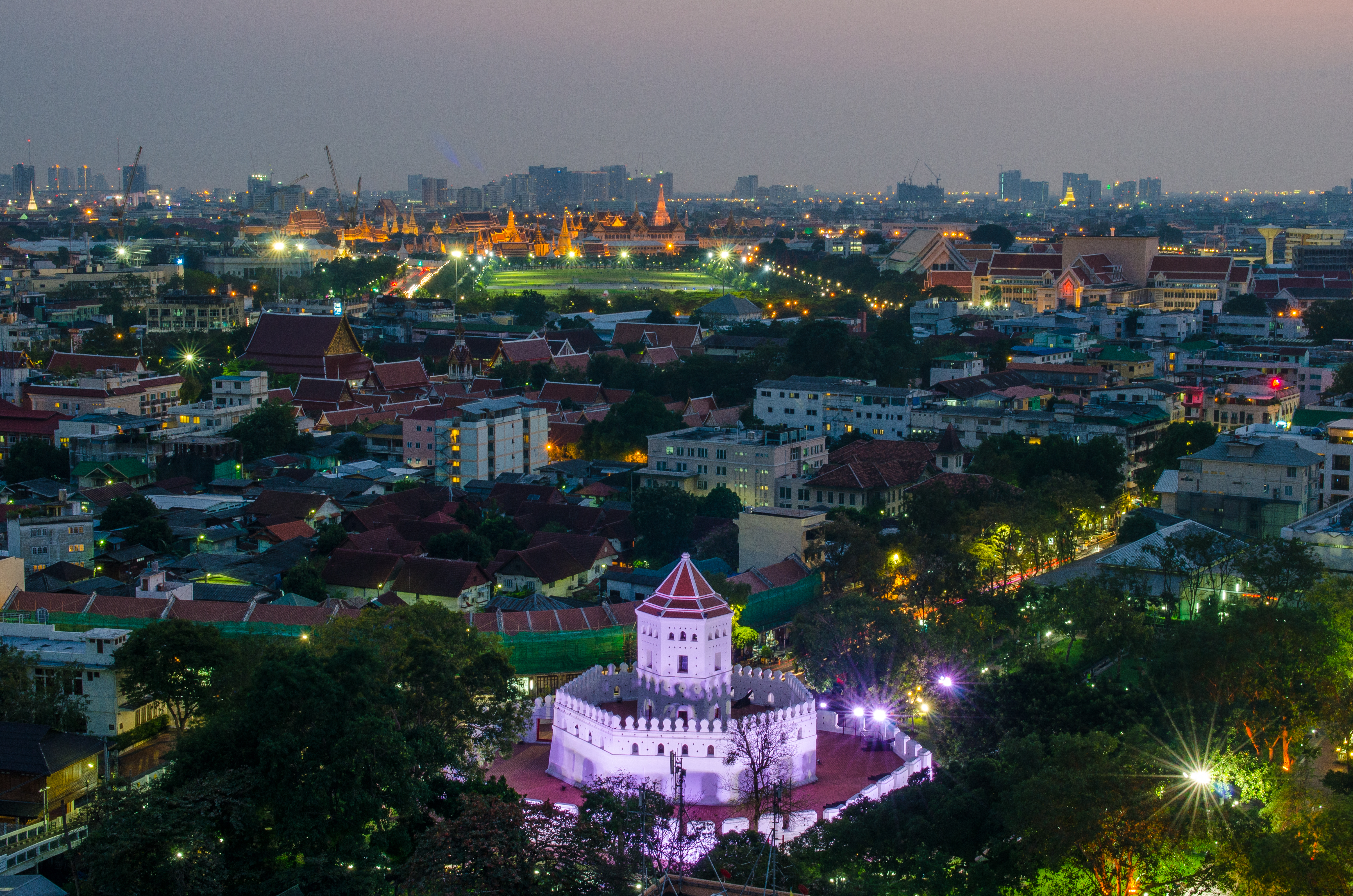 A high-angle shot of Phra Sumen Fort. The Grand Palace and Wat Phra Si Rattanasatsadaram are seen in the background.